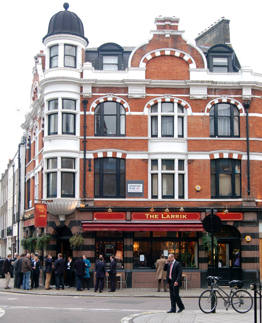 The Larrick public house, Crawford Place, London W1